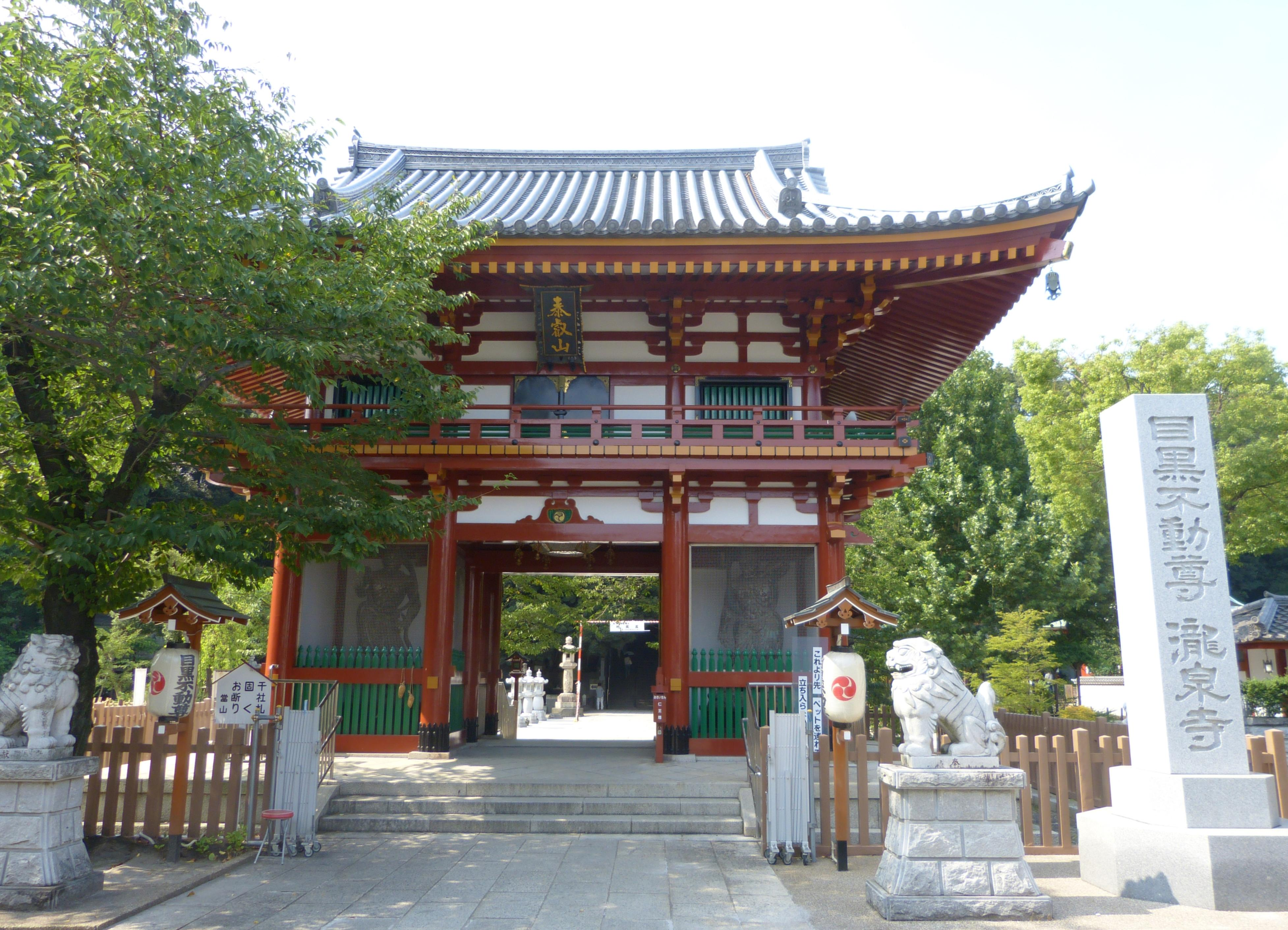 Niōmon gate of Ryūsen-ji temple